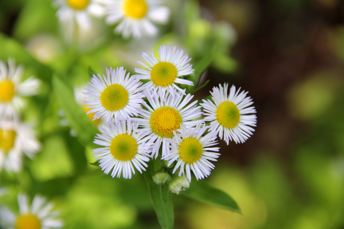 My leaf blades are elliptic to broadly ovate, rarely spatulate, about 4 to 17 cm long and 1.5 to 4 cm wide. I am listed as an invasive plant in China. Though I love fertile land with sunny exposure, I am tough enough to grow in dry and arid soil.